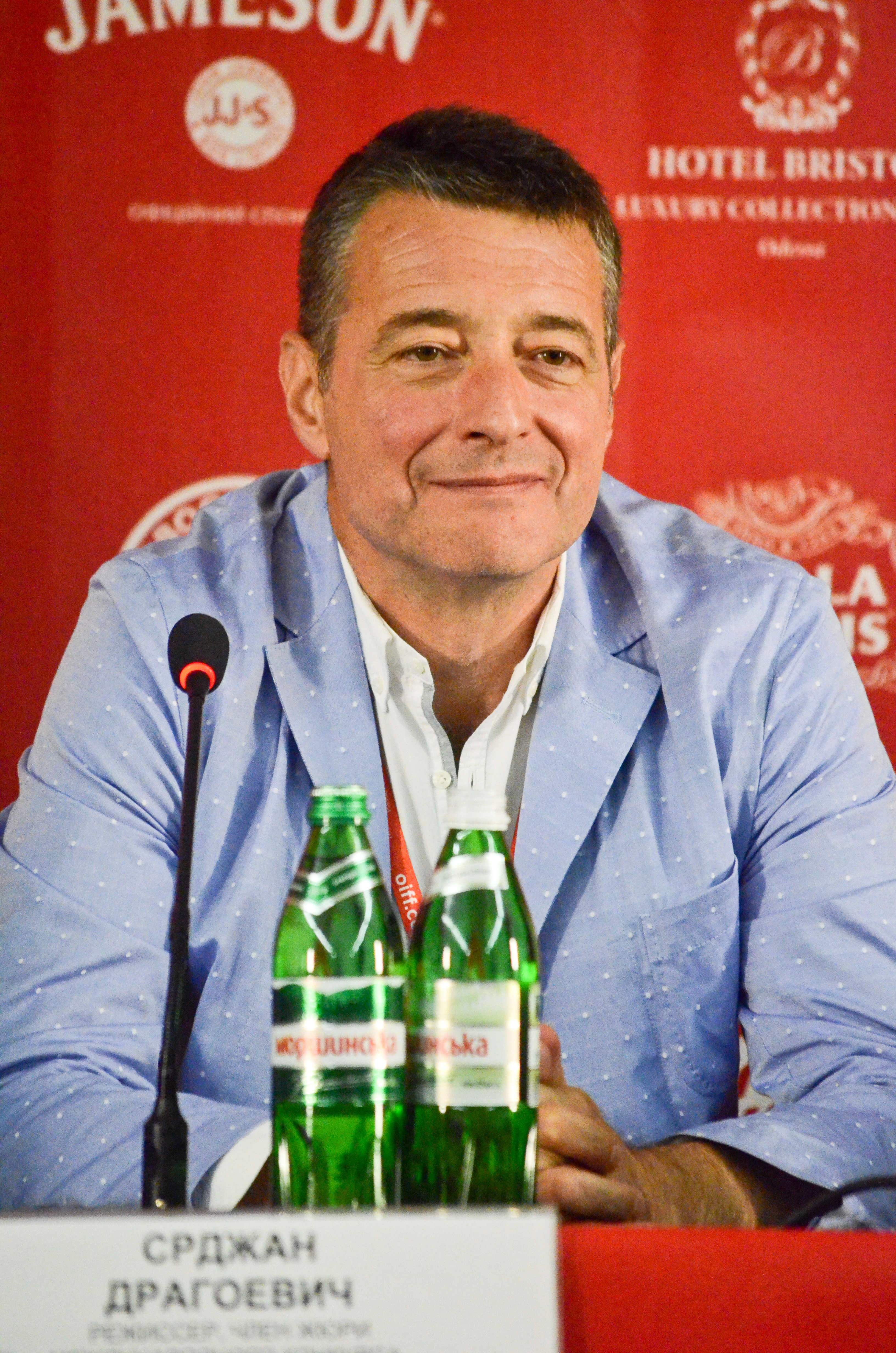 Serbian film director Srđan Dragojević at the 6th Odessa International Film Festival.